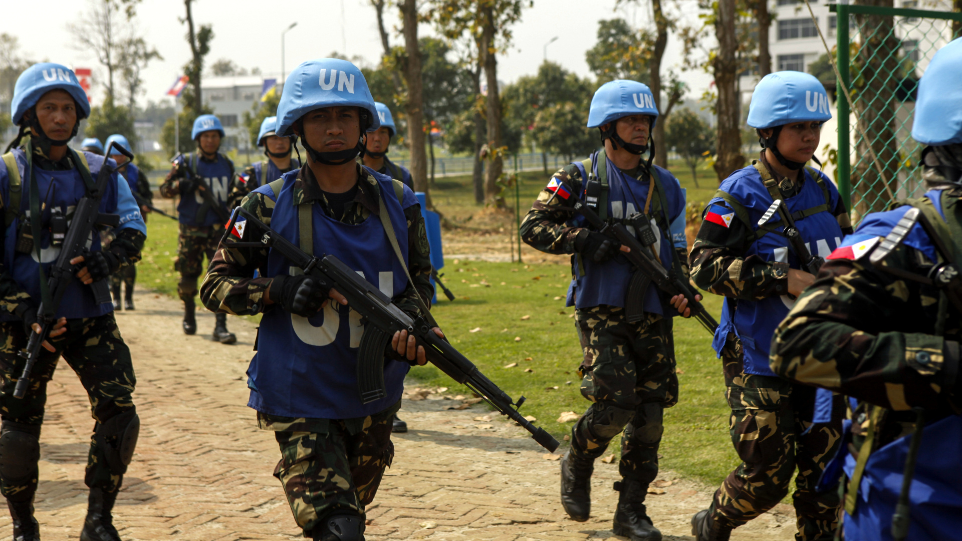 Philippines Marines arrive at a field training event on site security during Exercise Shanti Doot 4. Shanti Doot 4 is a multinational United Nations peacekeeping exercise with more than 1,000 participants from more than 30 countries designed to provide pre-deployment training to U.N. partner countries in preparation for real-world peacekeeping operations.